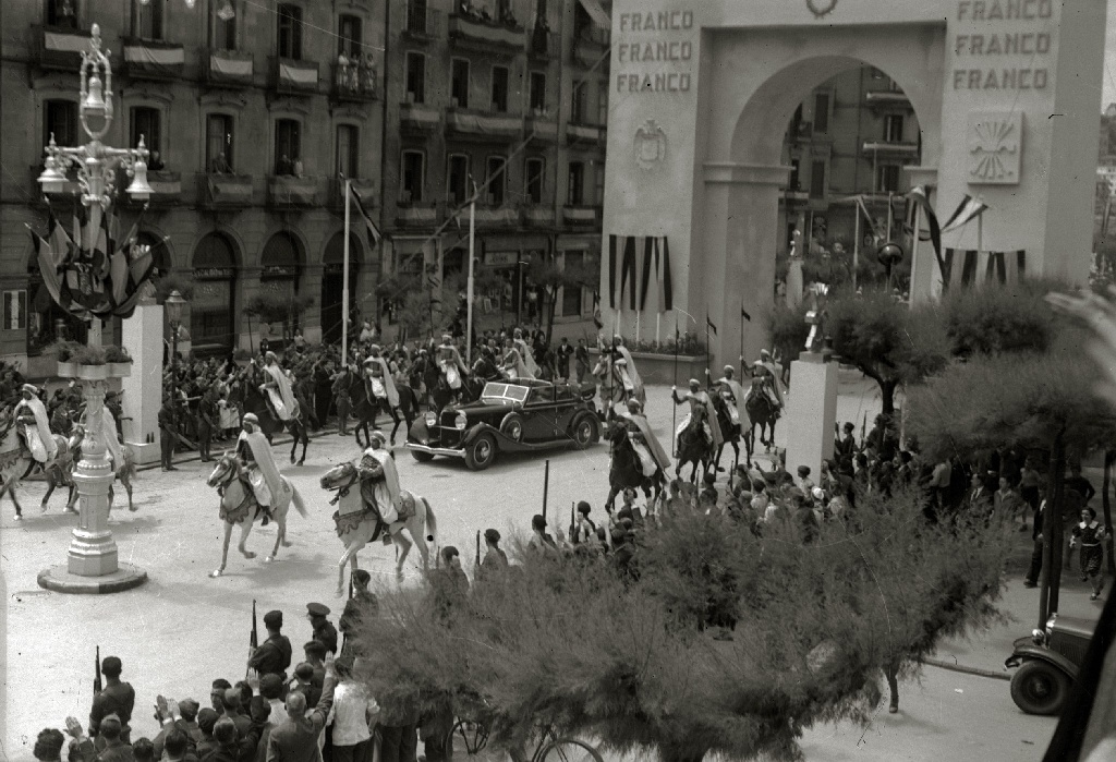 Dictator Franco parading in Donostia (San Sebastián) in 1939, followind the end of war